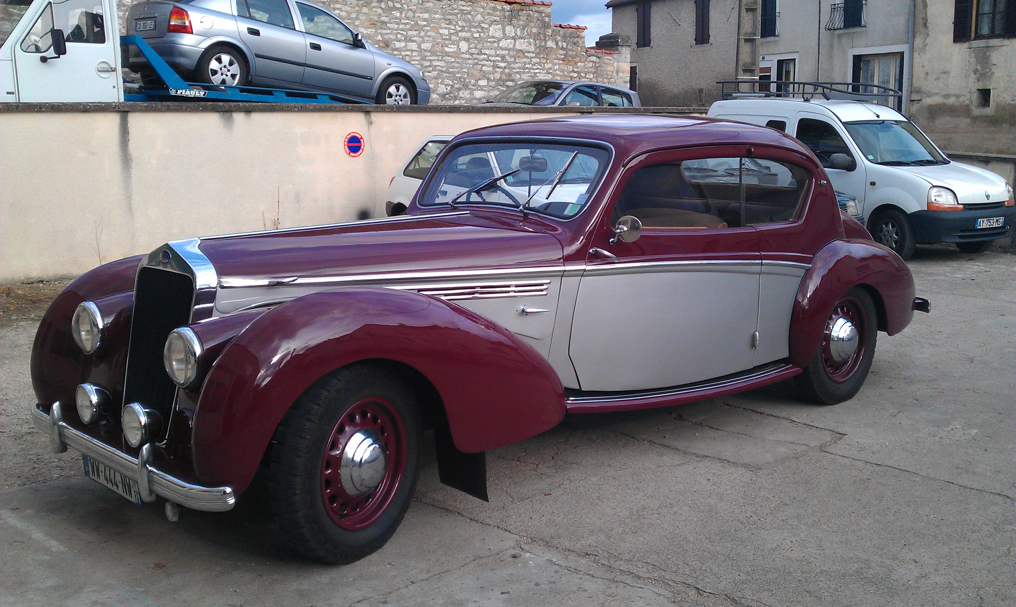 1947 Delage D6-70 by Letourneur et Marchand.